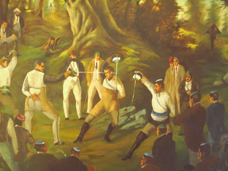 Members of an austrian fraternity fencing in a forest near Innsbruck, Tyrol. On the right members of "Corps Athesia Innsbruck"